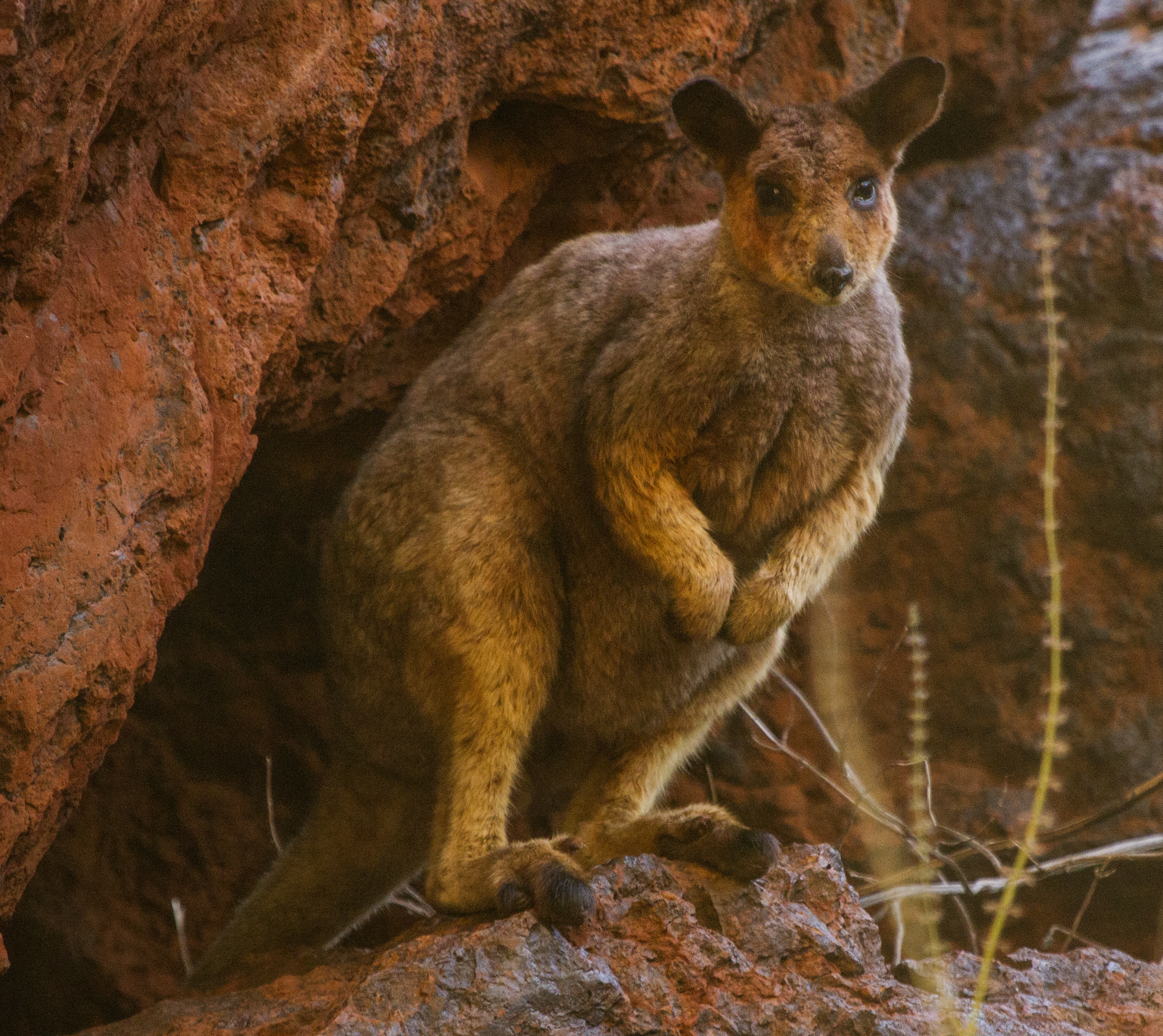 Rothschild's rock-wallaby (Petrogale rothschildi) from Karijini National Park